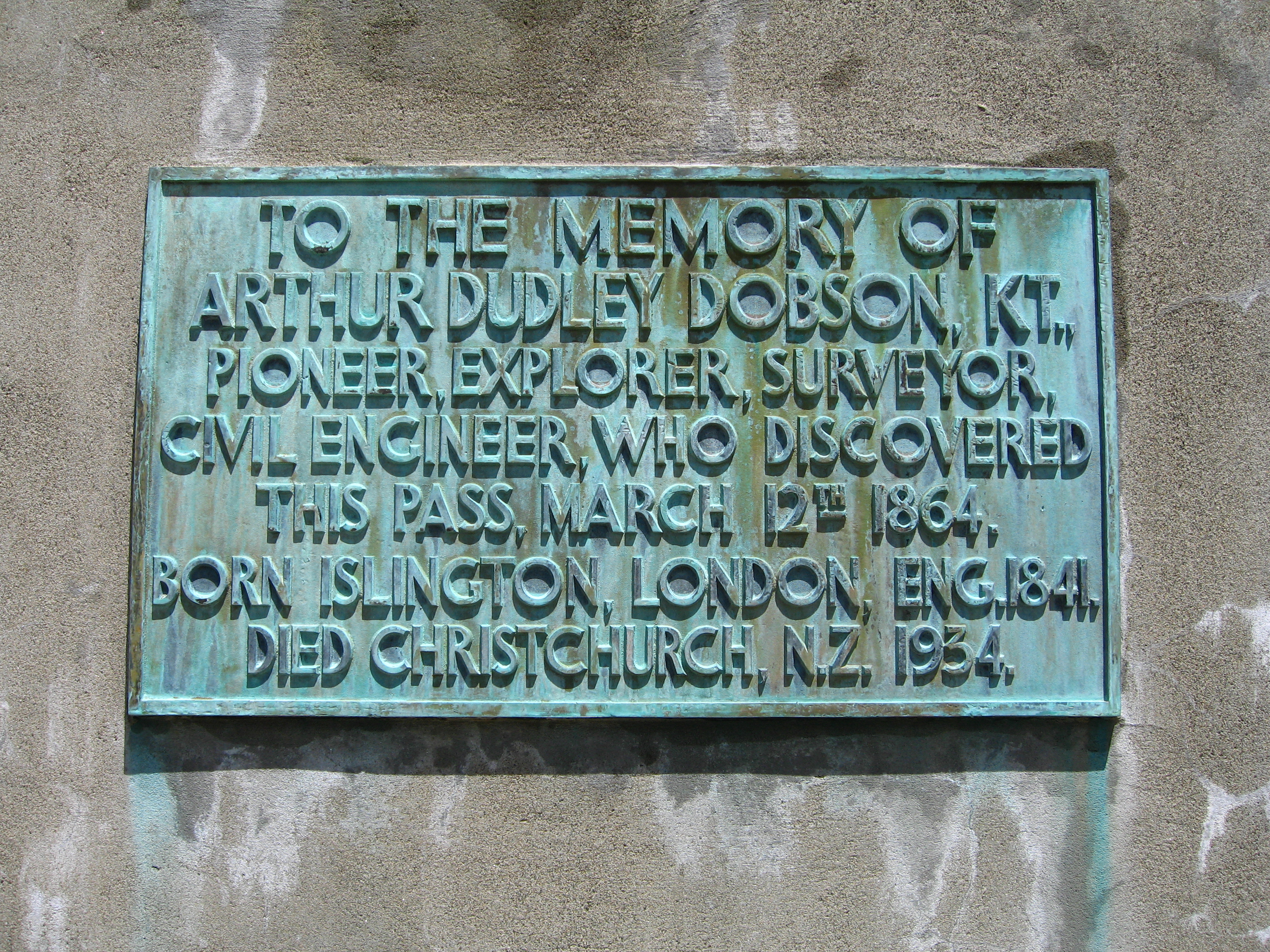 Arthur Dudley Dobson Memorial (detail), near Otira Gorge, New Zealand